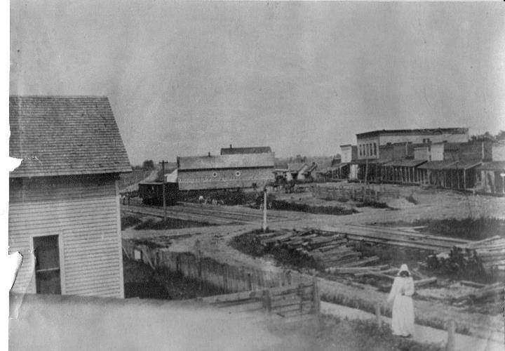 A picture of Carrier Mills Illinois in 1905